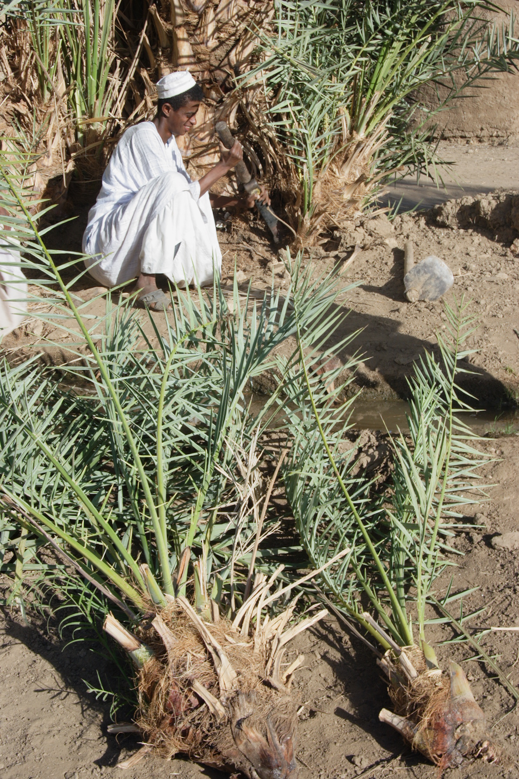 Mansuri cutting offshoots called Shatla (شتلا) from the lower trunk of a parent palm tree in Dar al-Manasir, Northern Sudan.)